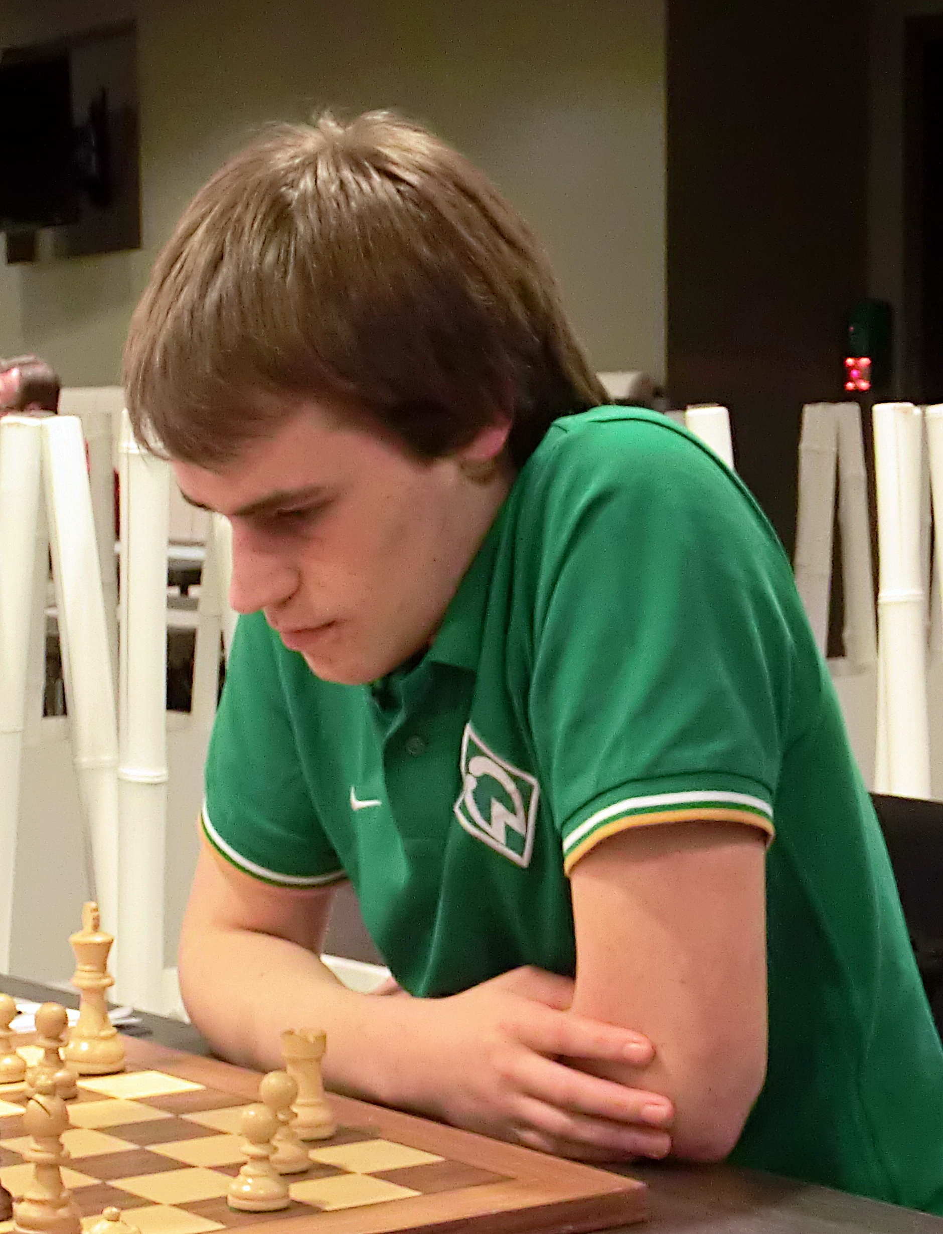 Matthias Blübaum, chess player from Germany